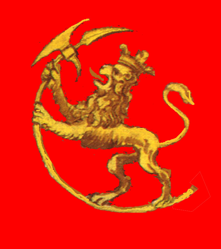 Lion image from 18th century Norwegian coat of arms